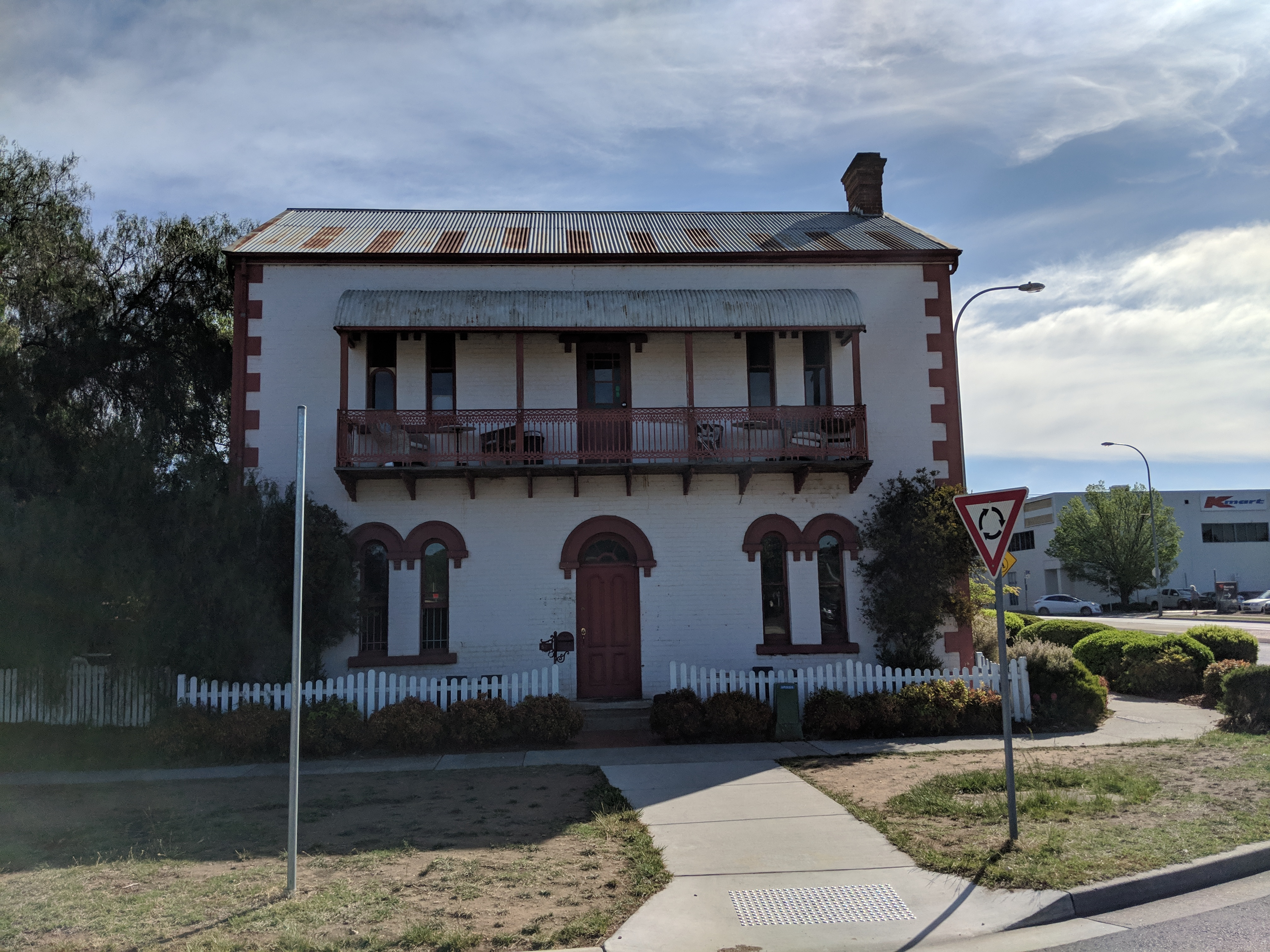 Byrnes Mill and Millhouse